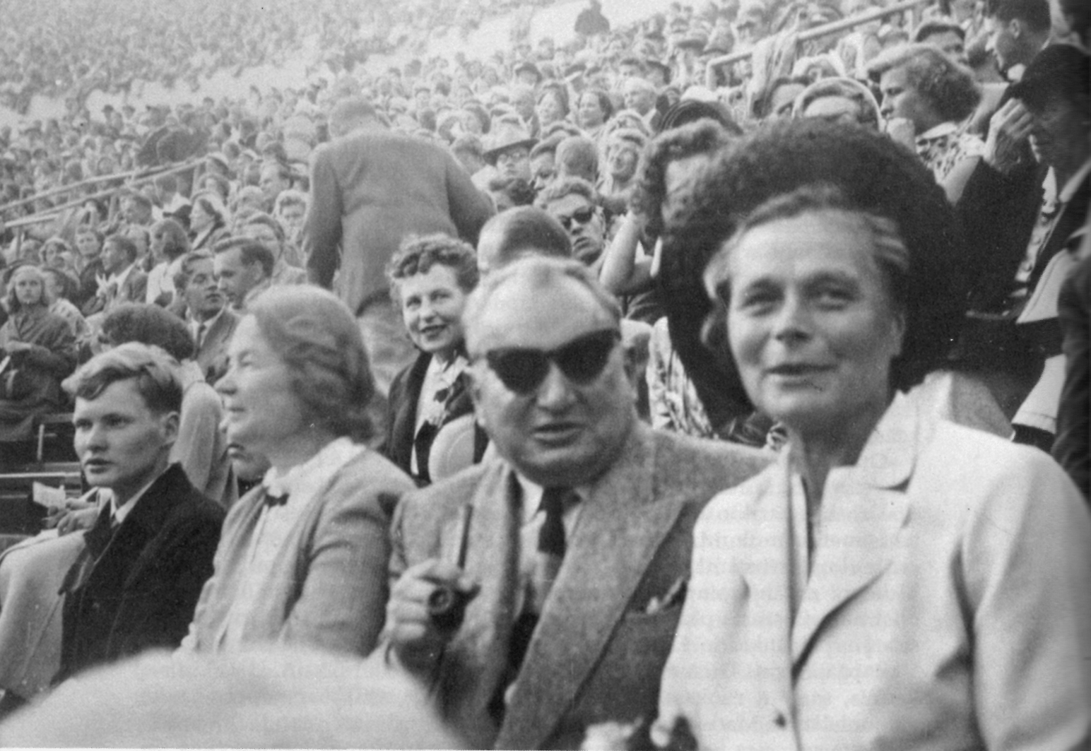 Photograph of the Finnish composer Aarre Merikanto (1893–1958) at the 1952 Olympic Games in Helsinki for which he composed the Olympic Fanfare.